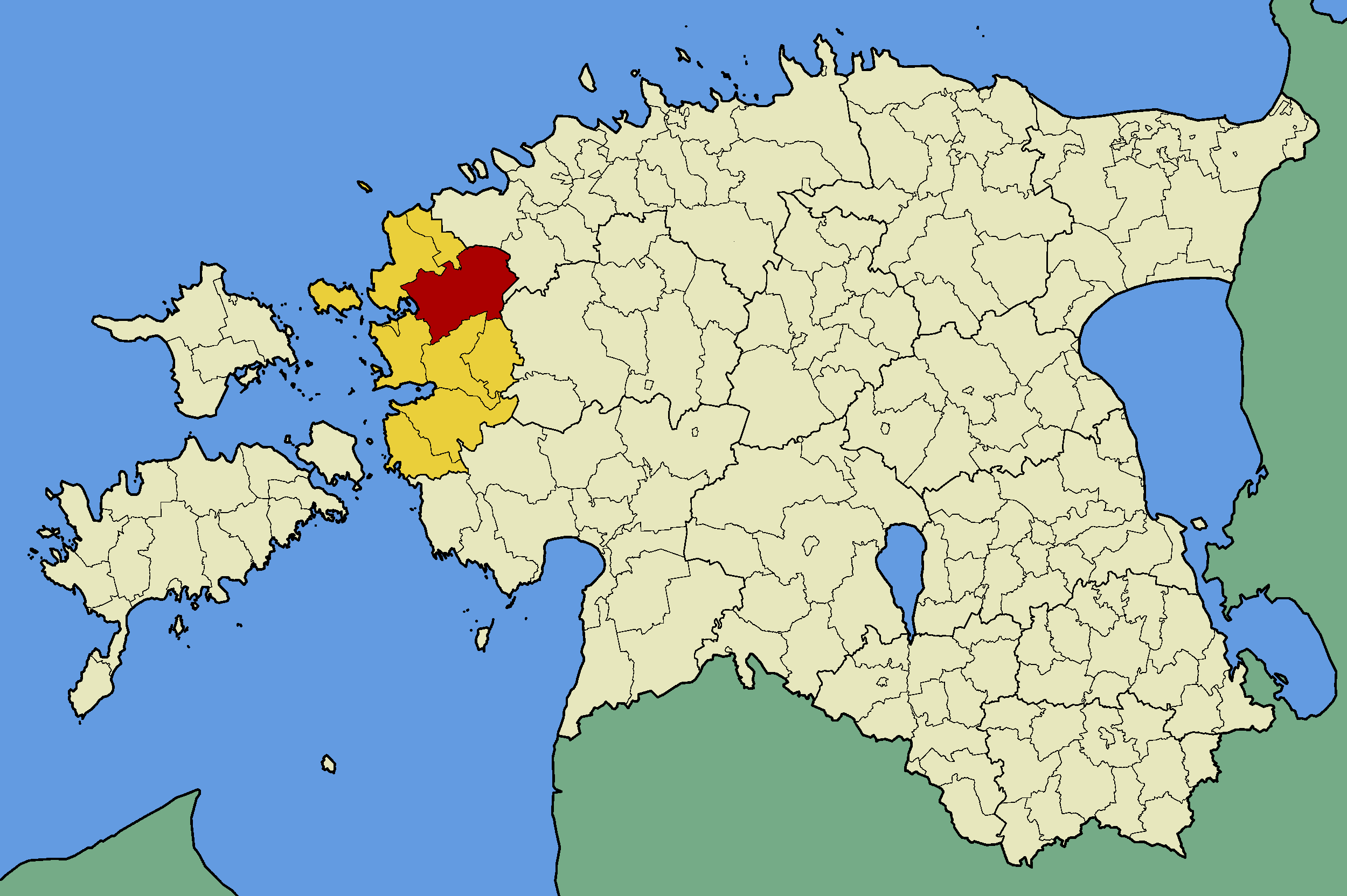 Map of Estonia with borders of municipalities (parishes). Lääne county and Lääne-Nigula municipality emphasized.